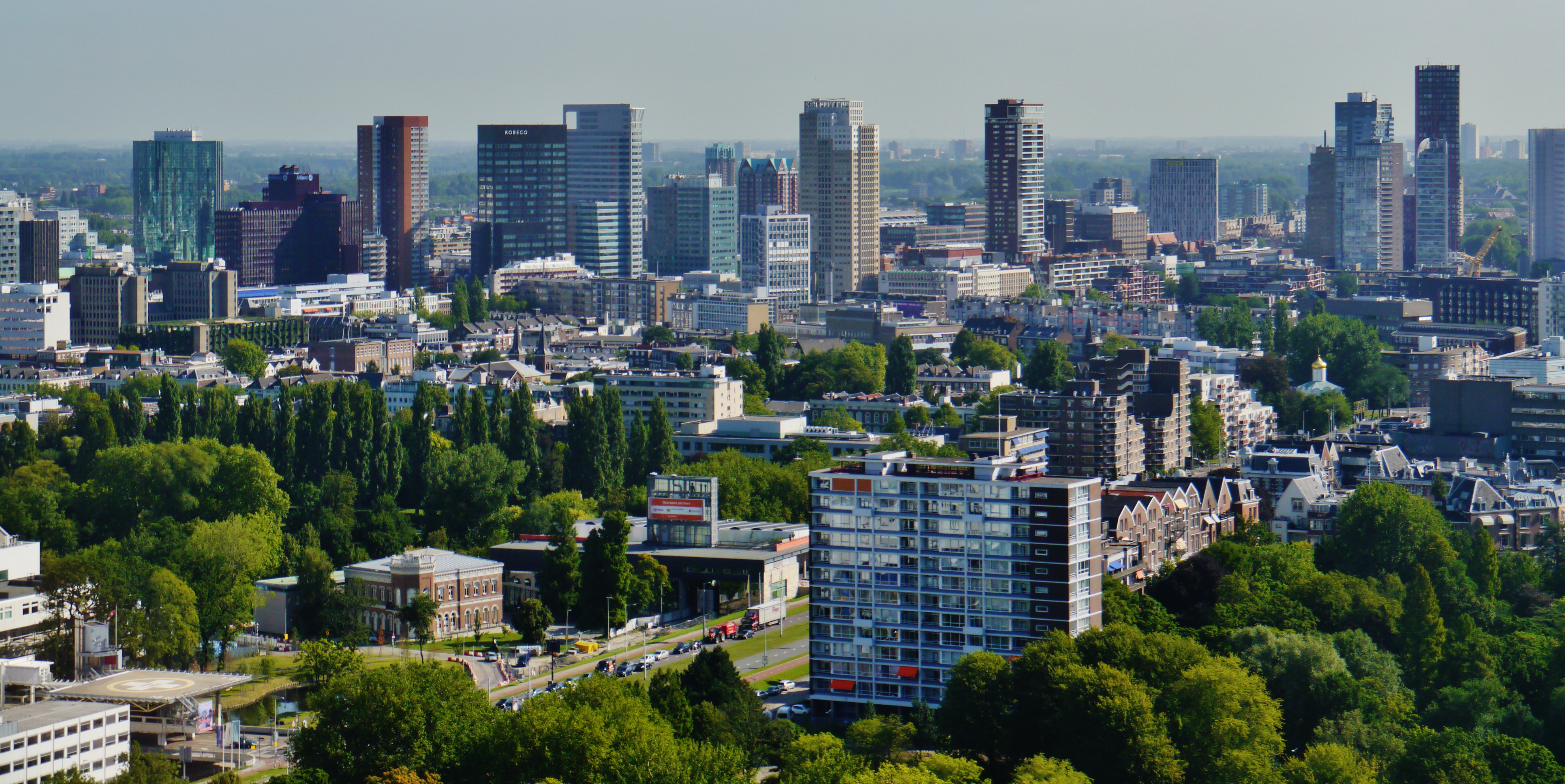 View from the Euromast, Rotterdam, Province of South Holland, Netherlands